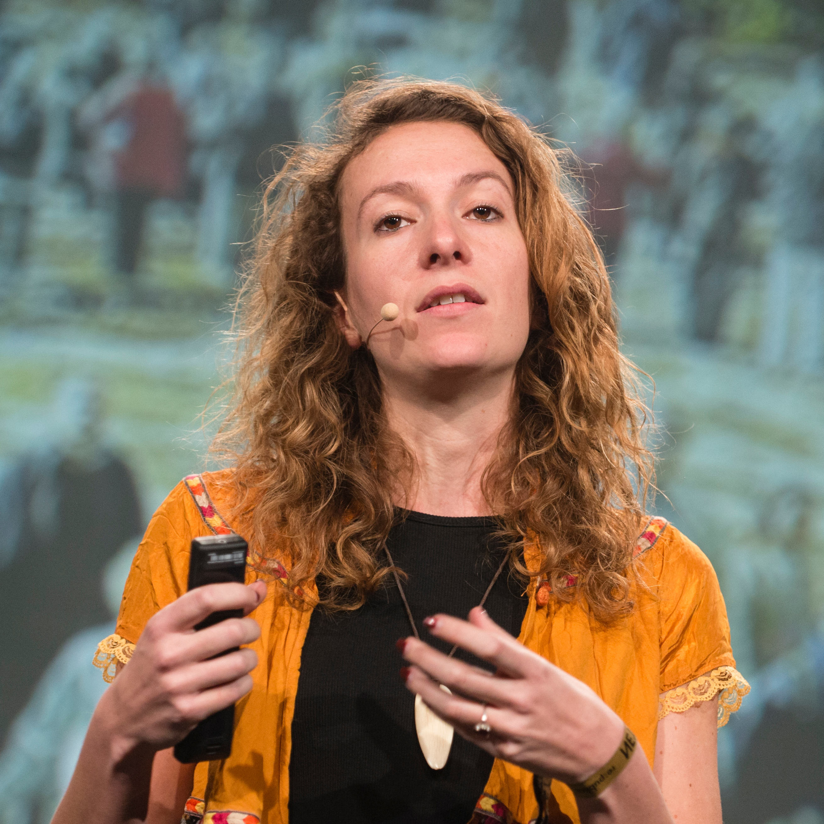 Alexa Clay mit „Neo-Tribes: The Future is Tribal“ am 04.05.2016 auf der re:publica in Berlin. Foto: re:publica/Gregor Fischer CC BY 2.0